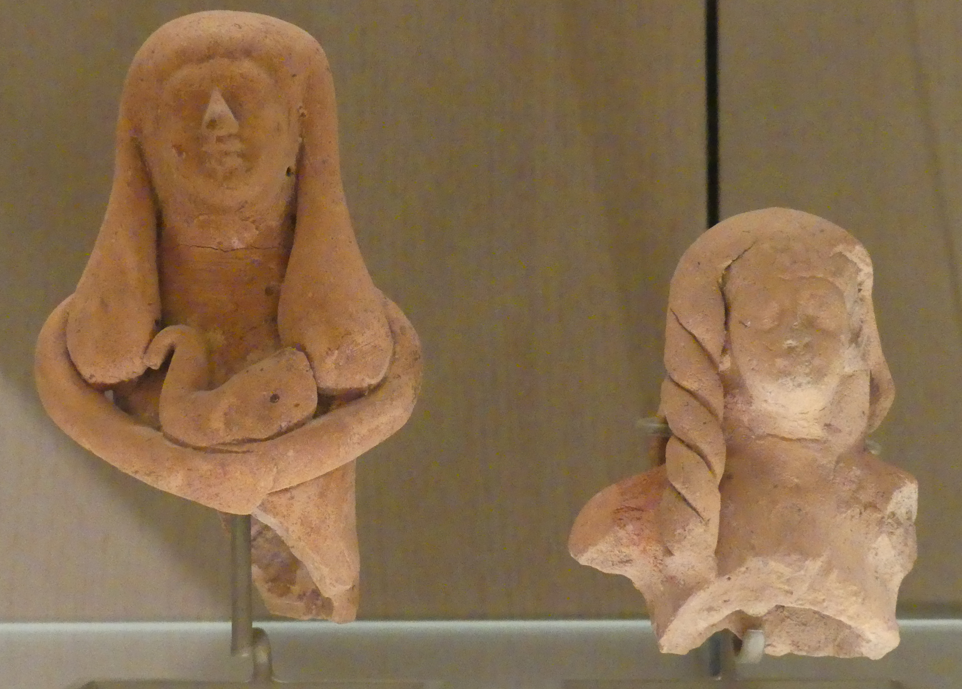 Female figurines made from terracotta found in Tyre/Sour, Southern Lebanon, dated Iron Age II, on display at the National Museum of Beirut